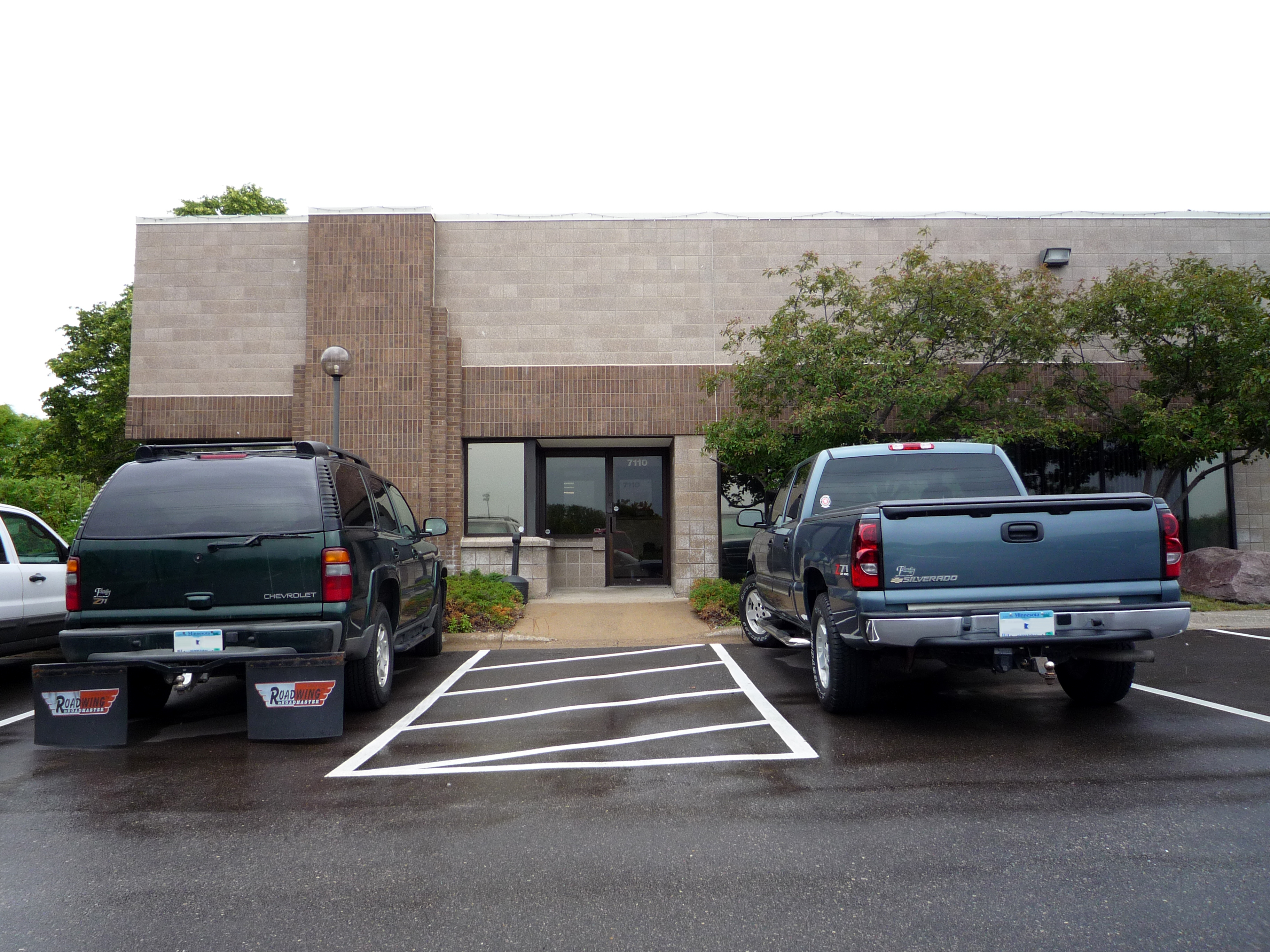 Headquarters of Magnum Research, Fridley, Minnesota, USA. It is intentionally unmarked on the outside.